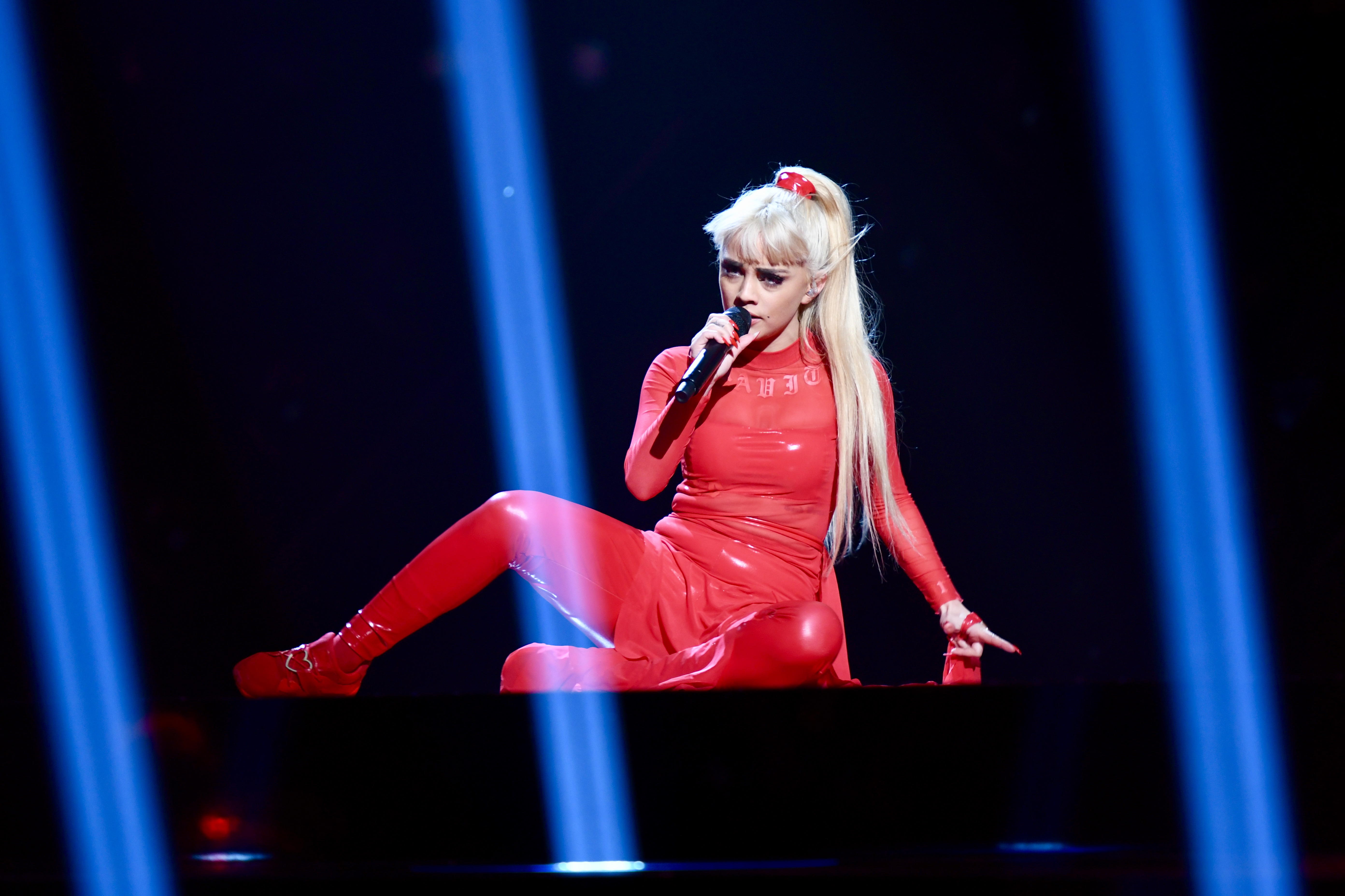 Jasmine Kara @ Melodifestivalen 2017